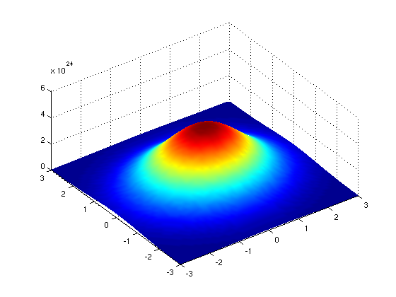 Gaussian function with 2-dimensional domain.